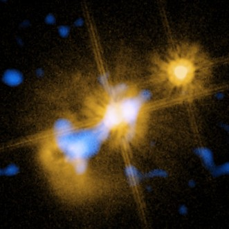 Colour composite image of a peculiar object, the nearby quasar HE0450-2958, which is the only one for which no sign of a host galaxy has yet been detected. A team of astronomers has identified black hole jets as a possible driver of galaxy formation, which may also represent the long-sought missing link to understanding why the mass of black holes is larger in galaxies that contain more stars.